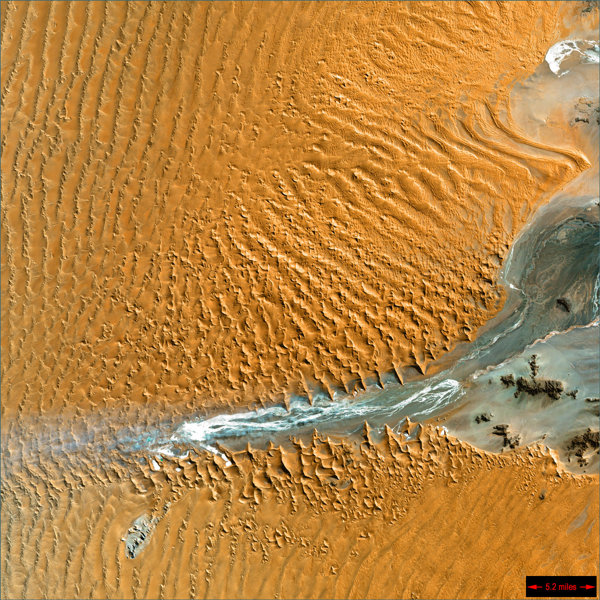 Namib desert, Sossusvlei area: dead end of the Tsauchab River with Sossusvlei and Deadvlei, detail of a LandSat 7 image, natural colors, contrast enhanced